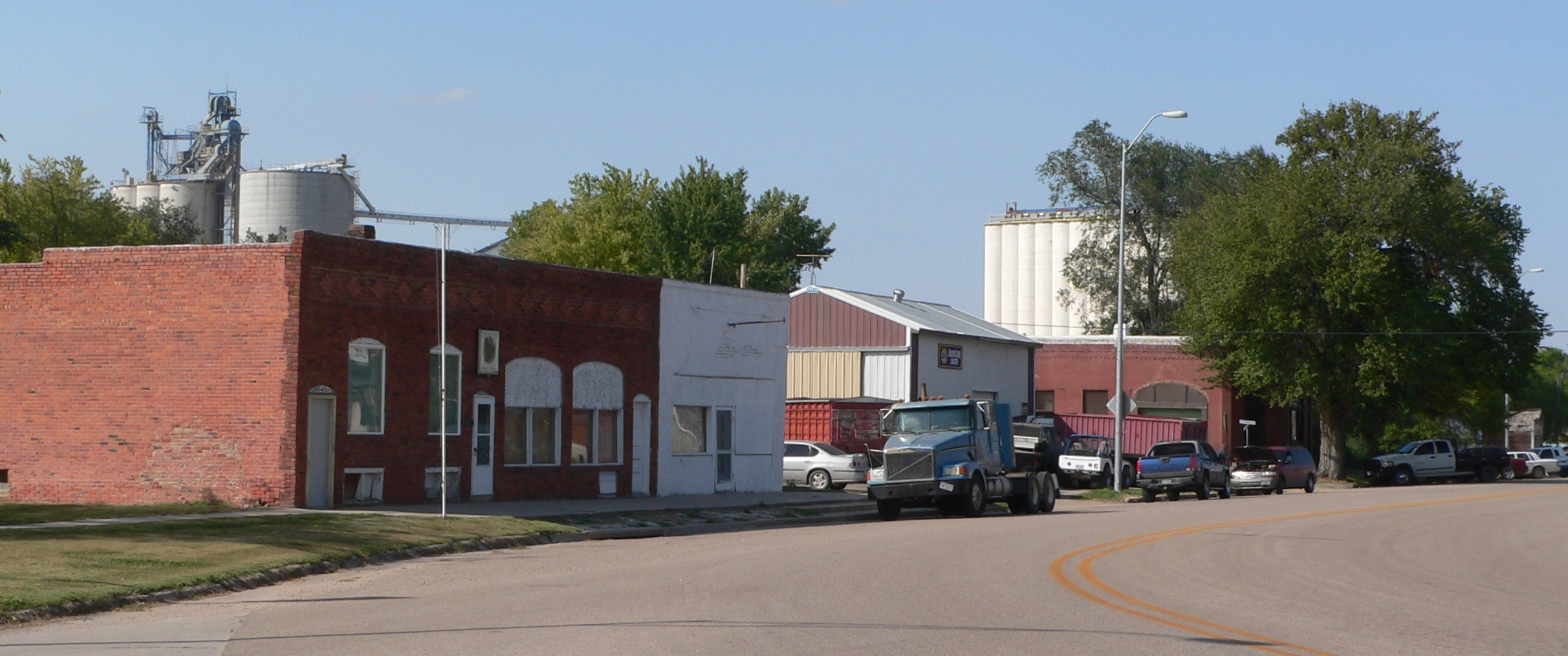 Downtown Edison, Nebraska: west side of Main Avenue, looking northwest from about 2nd Street.